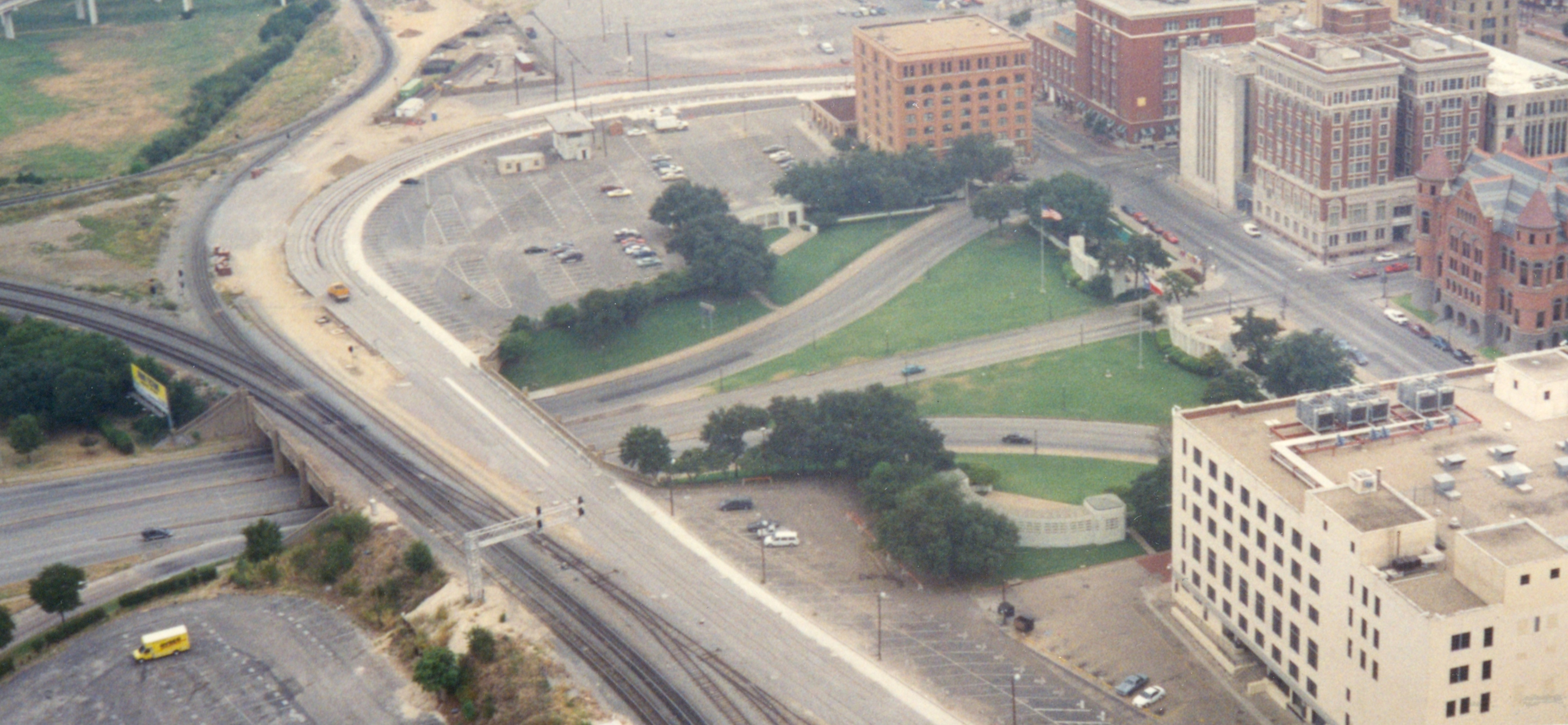 The view above Dealey Plaza in Dallas, Texas.